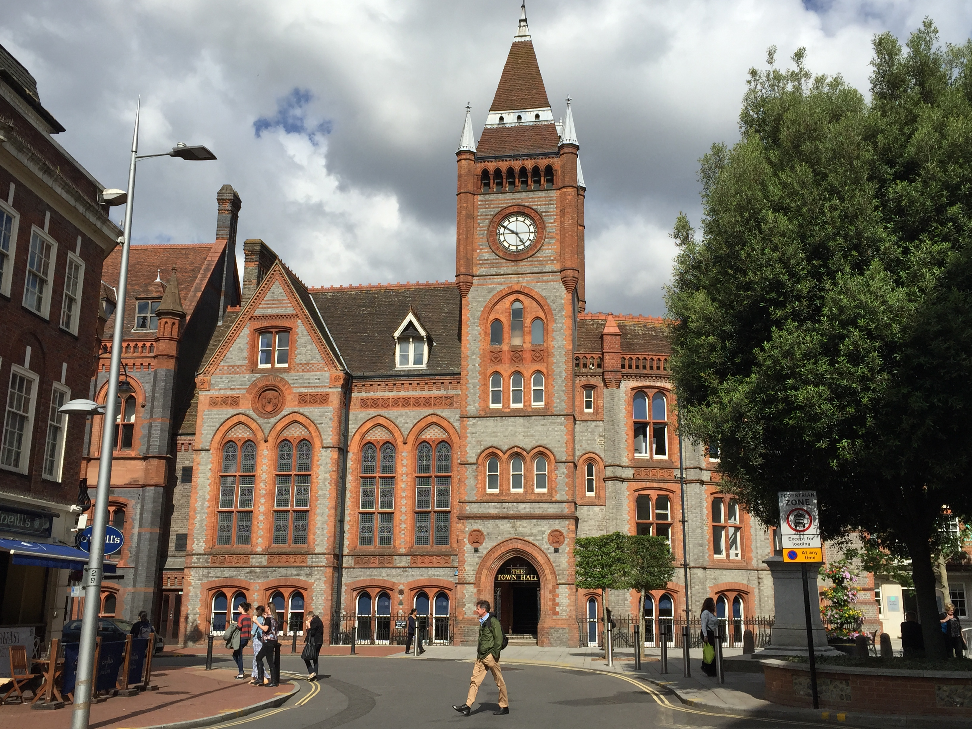 Reading Town Hall, Reading, Berkshire, UK.